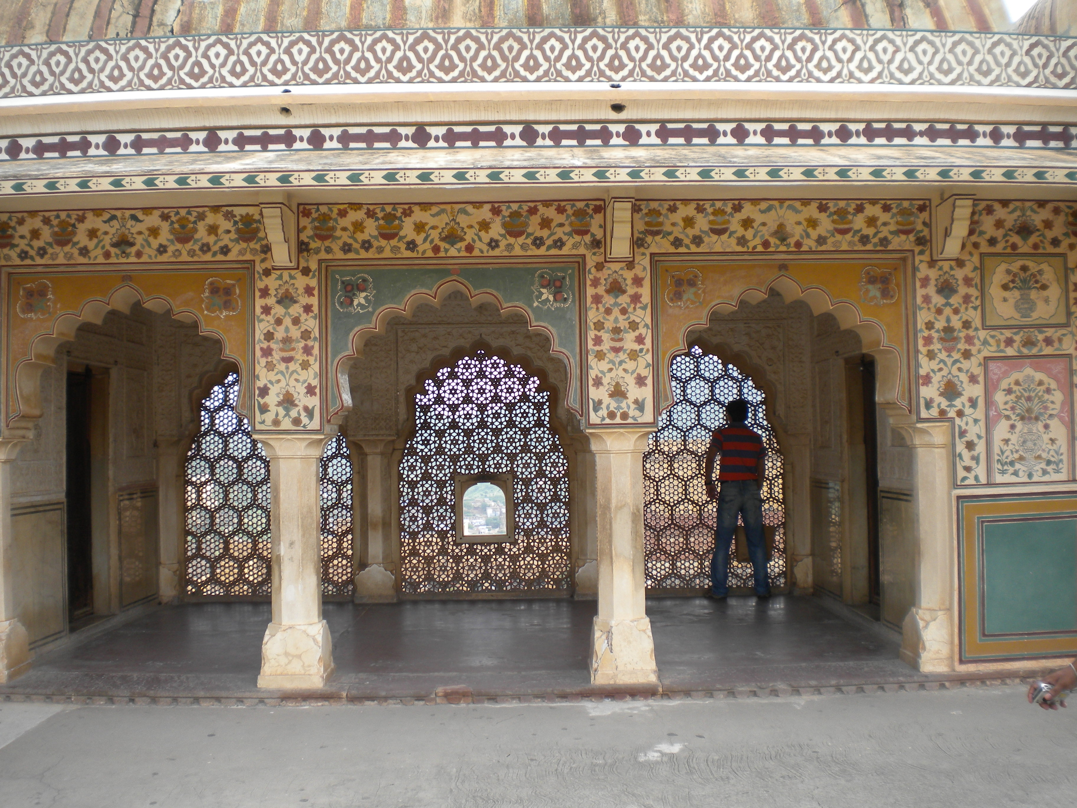 Suhag Mandir at top of Ganesh Pol, Amber Fort - Screens made of marble can be seen ആംബർ കോട്ടയിലെ ഗണേശ് പോളിനു മുകളിലെ സുഹാഗ് മന്ദിർ - താഴേക്കുള്ള വീക്ഷണത്തിനുള്ള മാർബിൾ‌ കൊണ്ടുള്ള തിരശീലകൾ കാണാം.